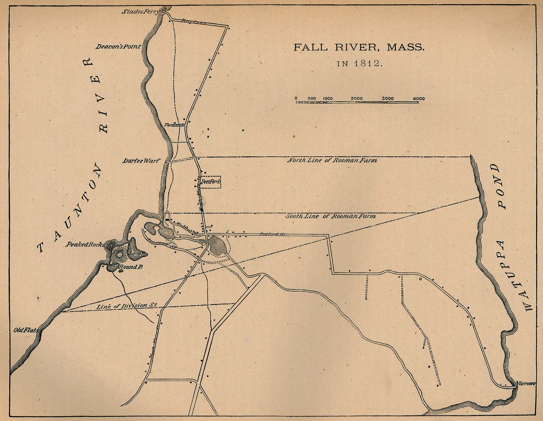 Historic Map of Fall River